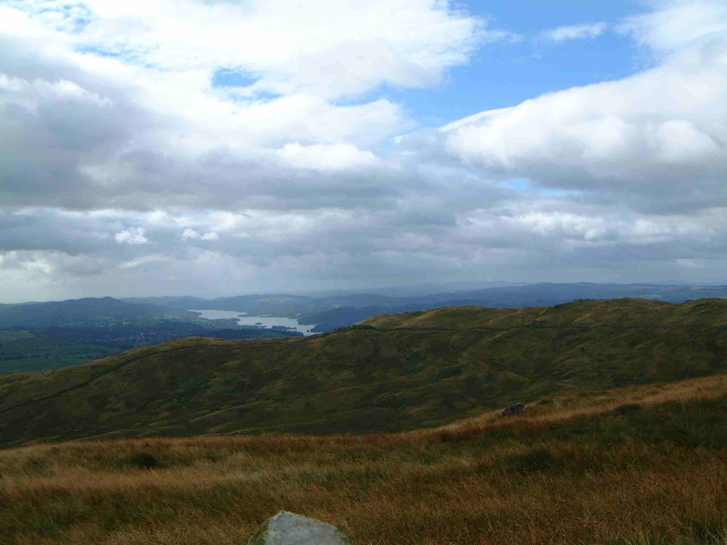 Personal photograph taken by Mick Knapton